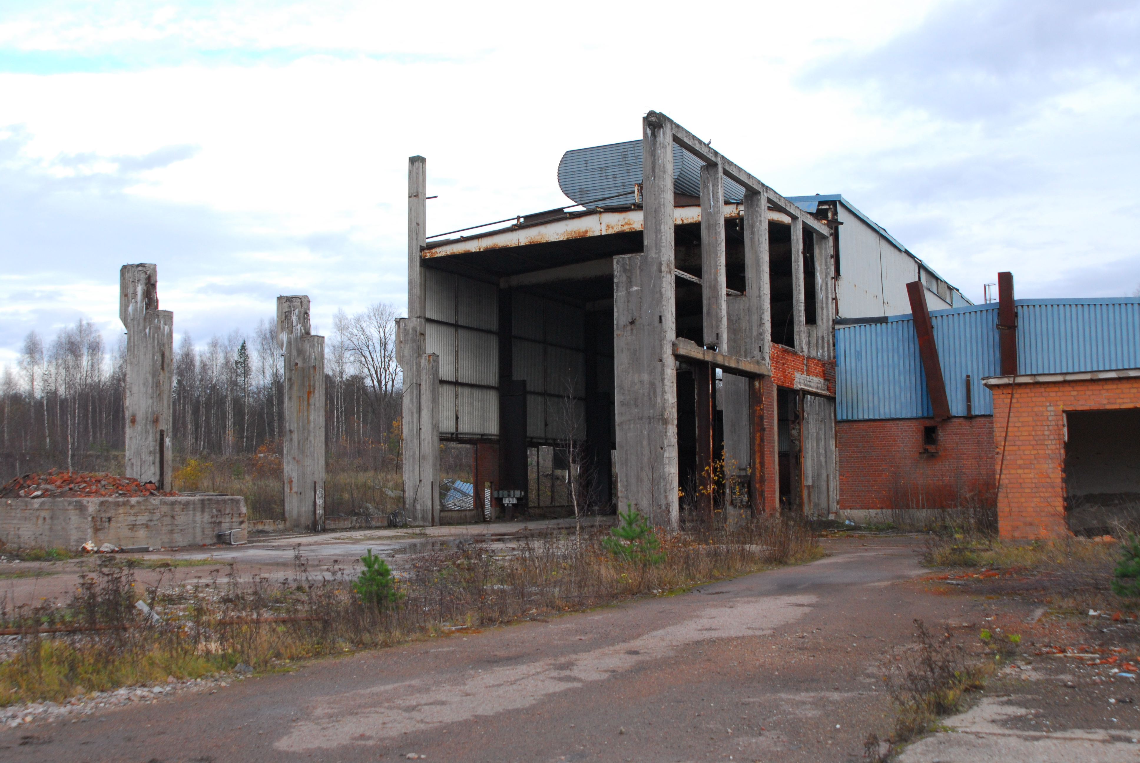 Horndals bruk, Avesta Municipality, Sweden. Ruins of the steel mill (closed 1979).